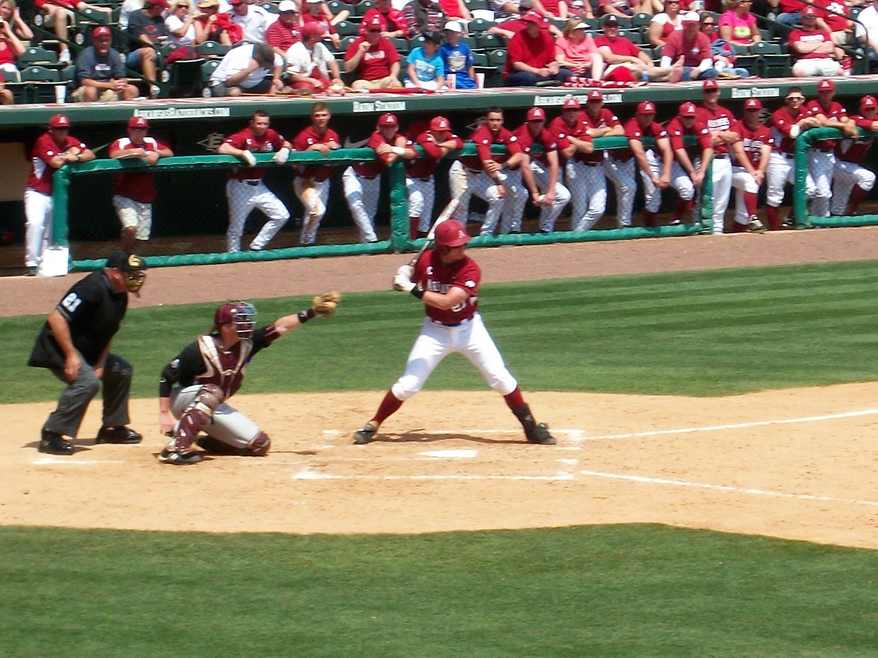 Arkansas Razorbacks catcher James McCann bats against the Mississippi State Bulldogs